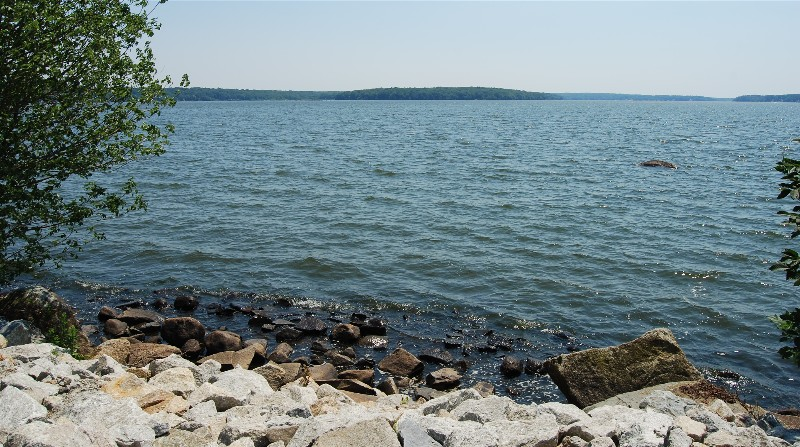 View of South Watuppa Pond, from Fall River, Massachusetts